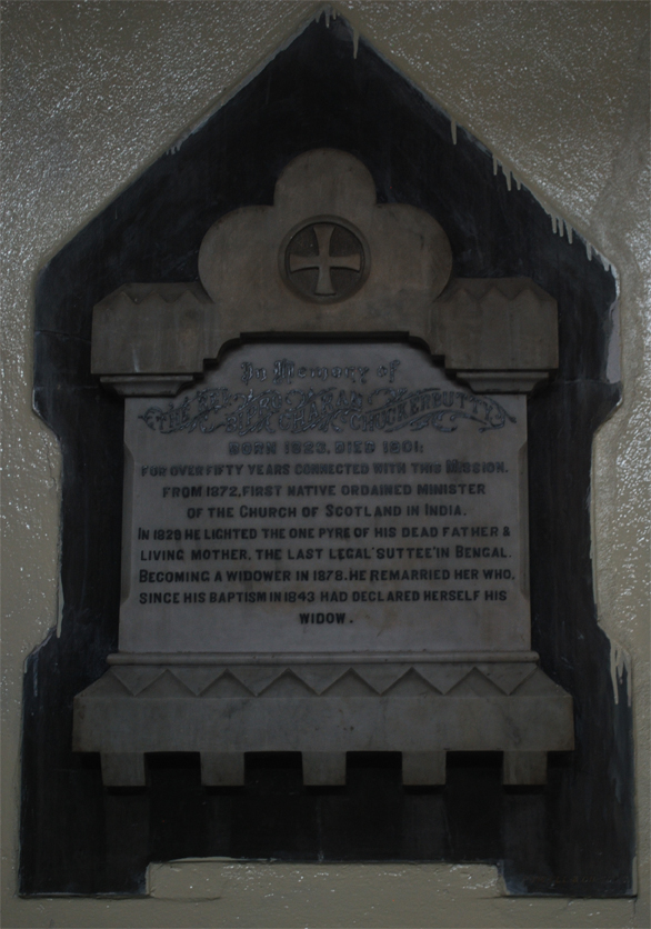 Plaque in the memory of Bipro Charan Chuokurbutty, first native ordained minister of Scottish Church in India, who lighted the pyre of his living mother, the last legal sati of Bengal. The plaque is situated at Scottish Church College, Kolkata